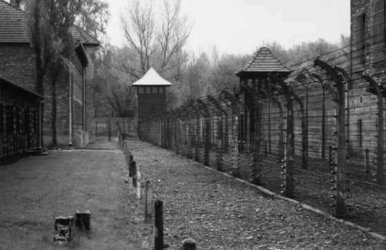 object: Konzentrationslager Auschwitz I Stammlager picture taken 2001 by André Freud